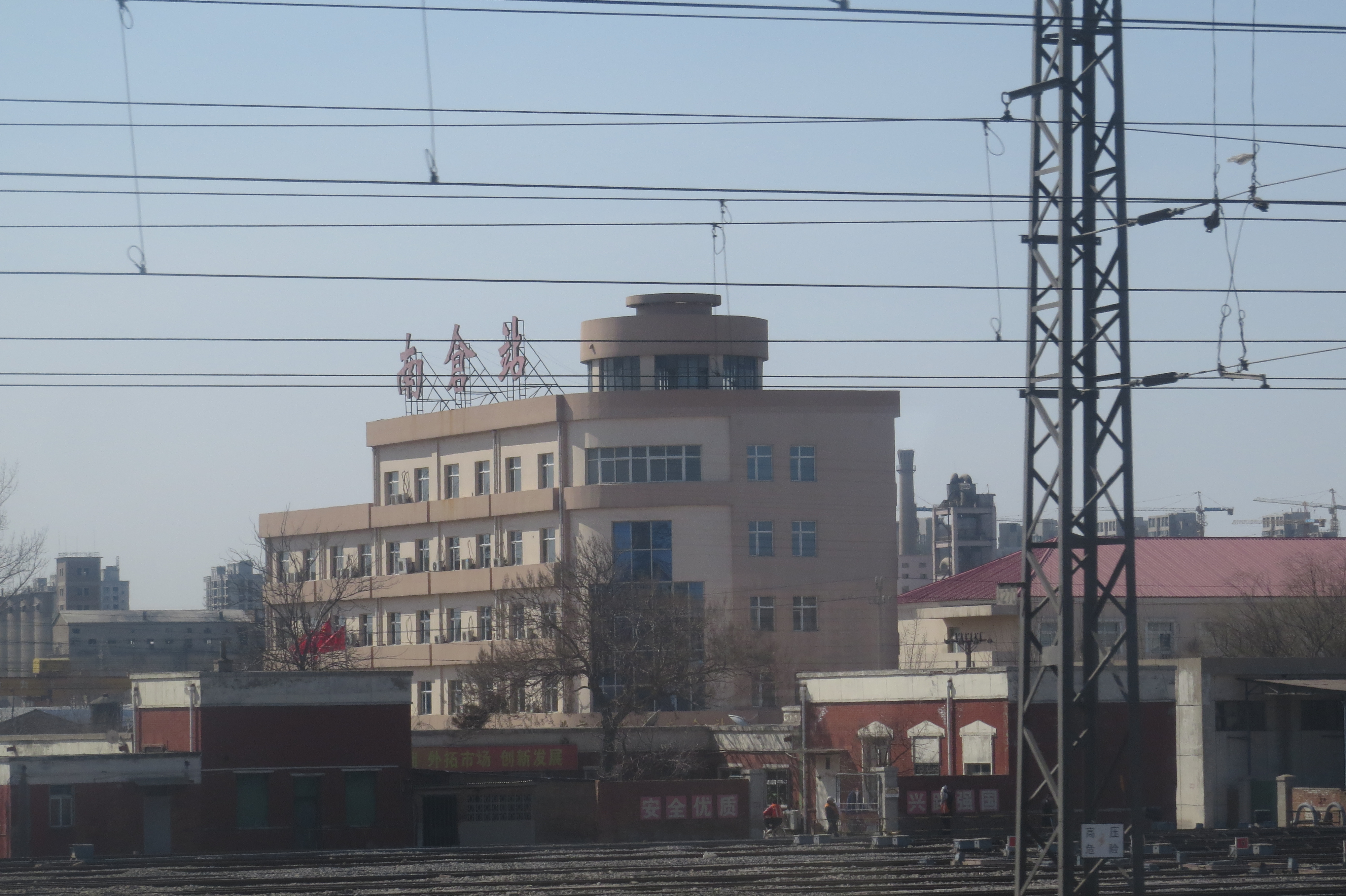 This is the main marshalling yard in Tianjin. Taken from T58.